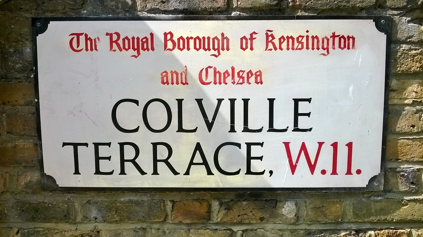 Colville Terrace, Notting Hill Gate, London street sign